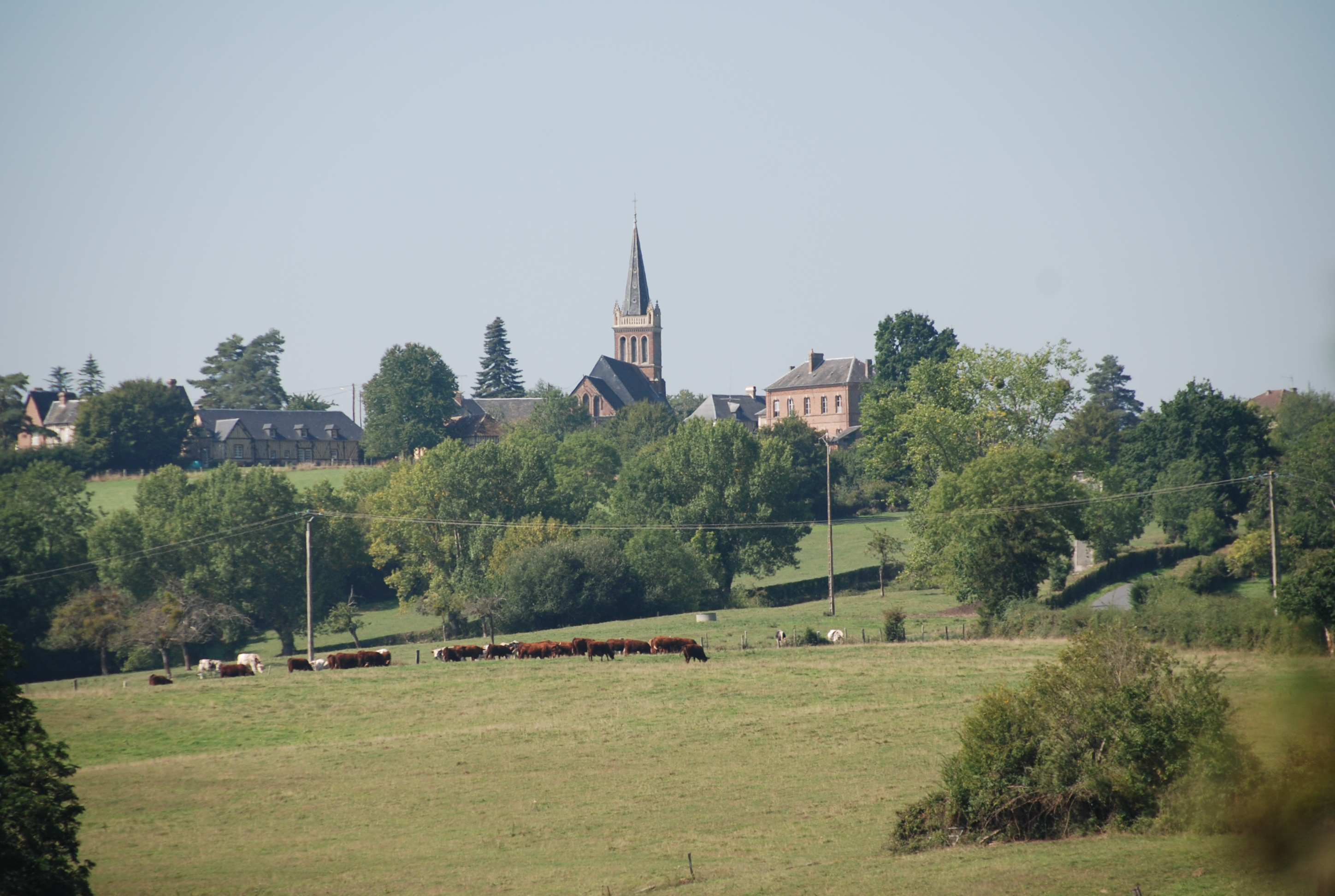 View of the village centre of Tortisambert.